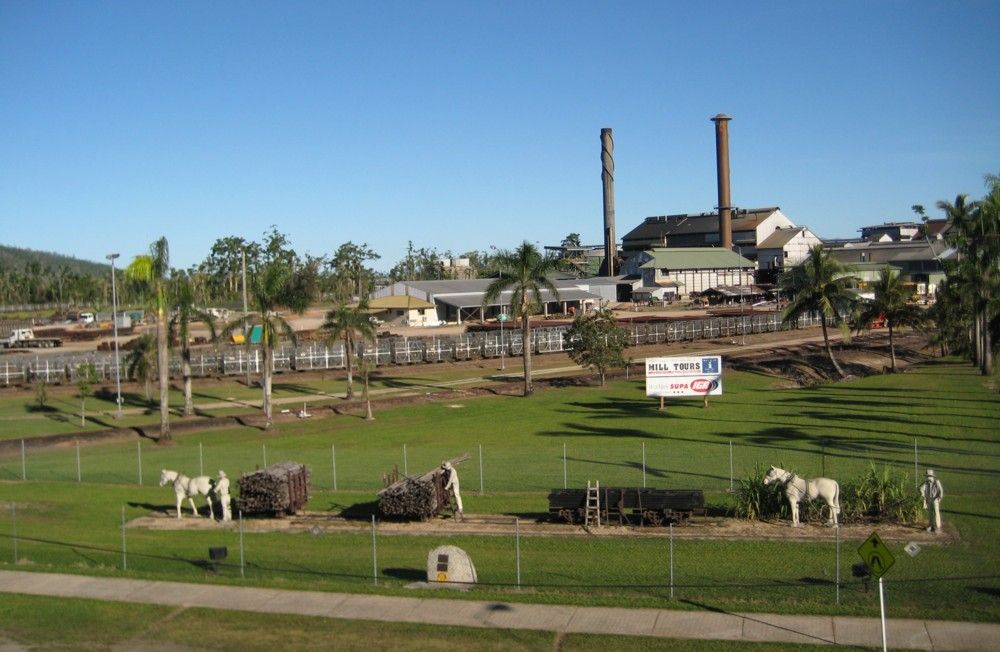 Tully Sugar Mill and display depicting Tully district sugar pioneers, viewed form the top of the Golden Gumboot, 2011.